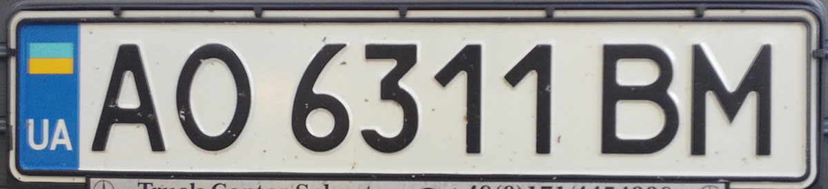 License plate of Ukraine.